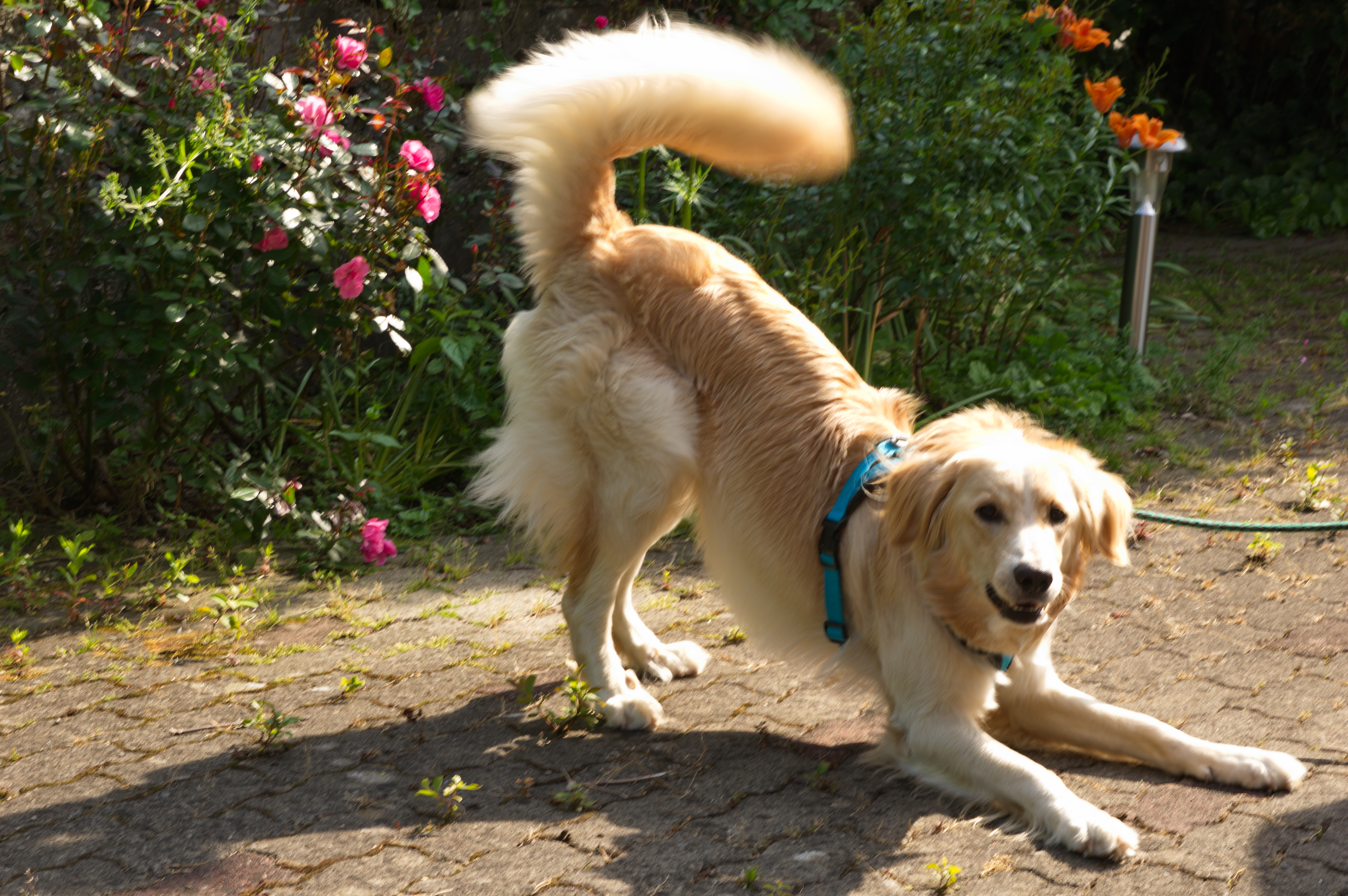 Bow: Typical play soliciting gesture of a young dog (1 year old male)